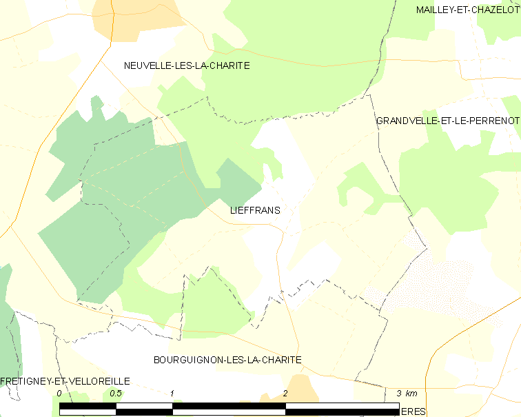 Map of French municipality